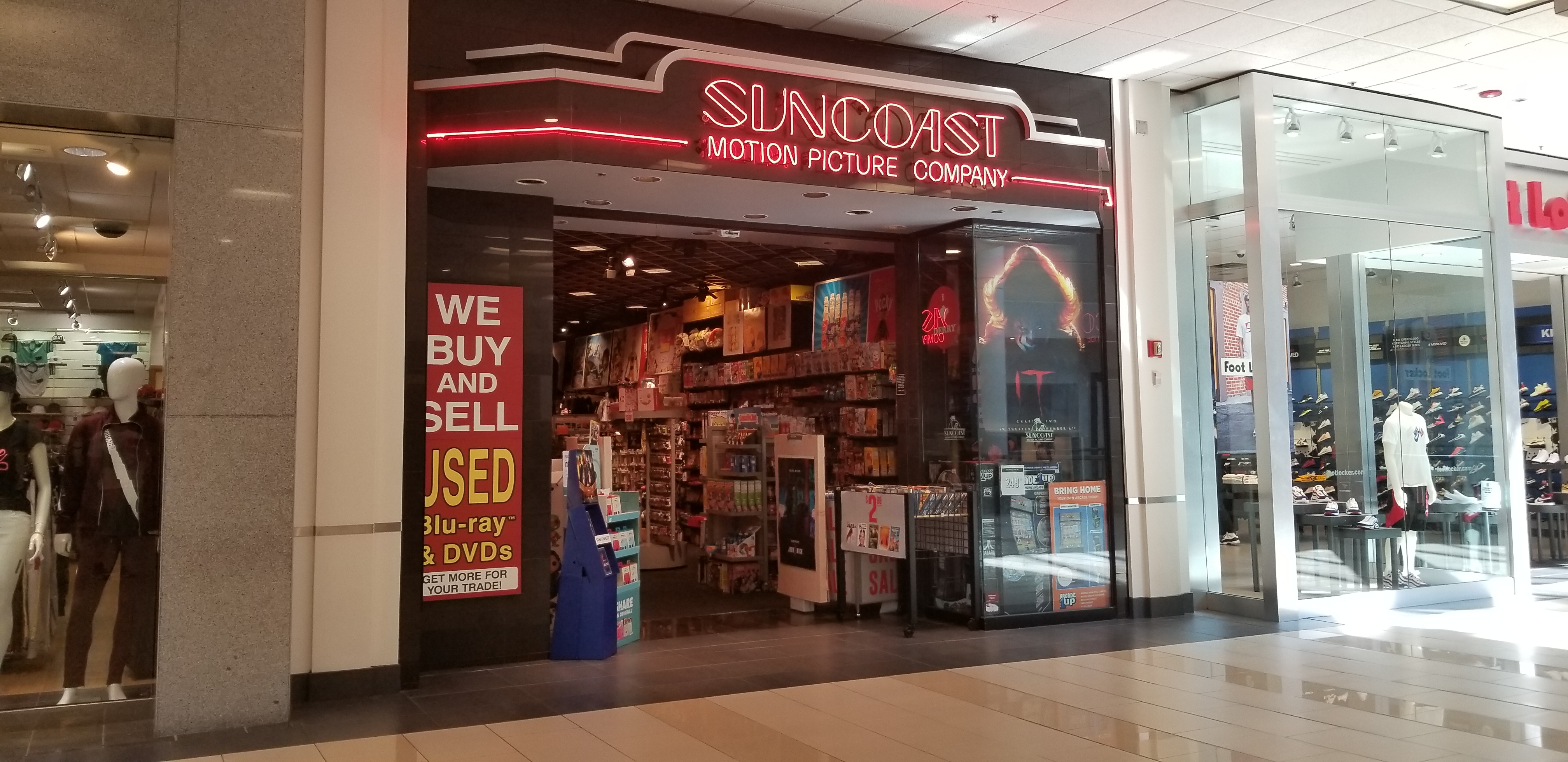 Monmouth Mall, Eatontown, NJ July 2019